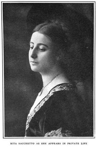 Rita Sacchetto was a German-born Spanish dancer of Italian and Austrian parentage.